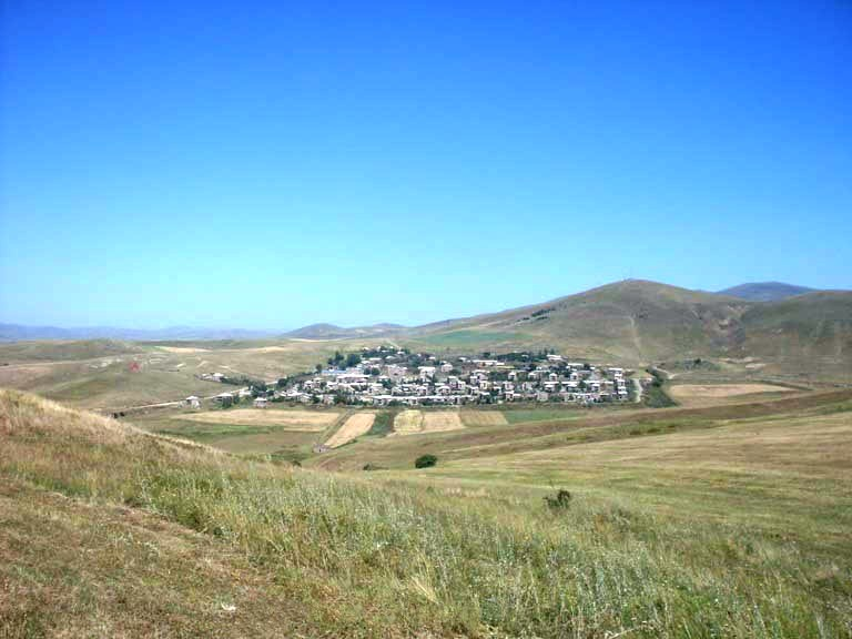 This is Torosgyugh.